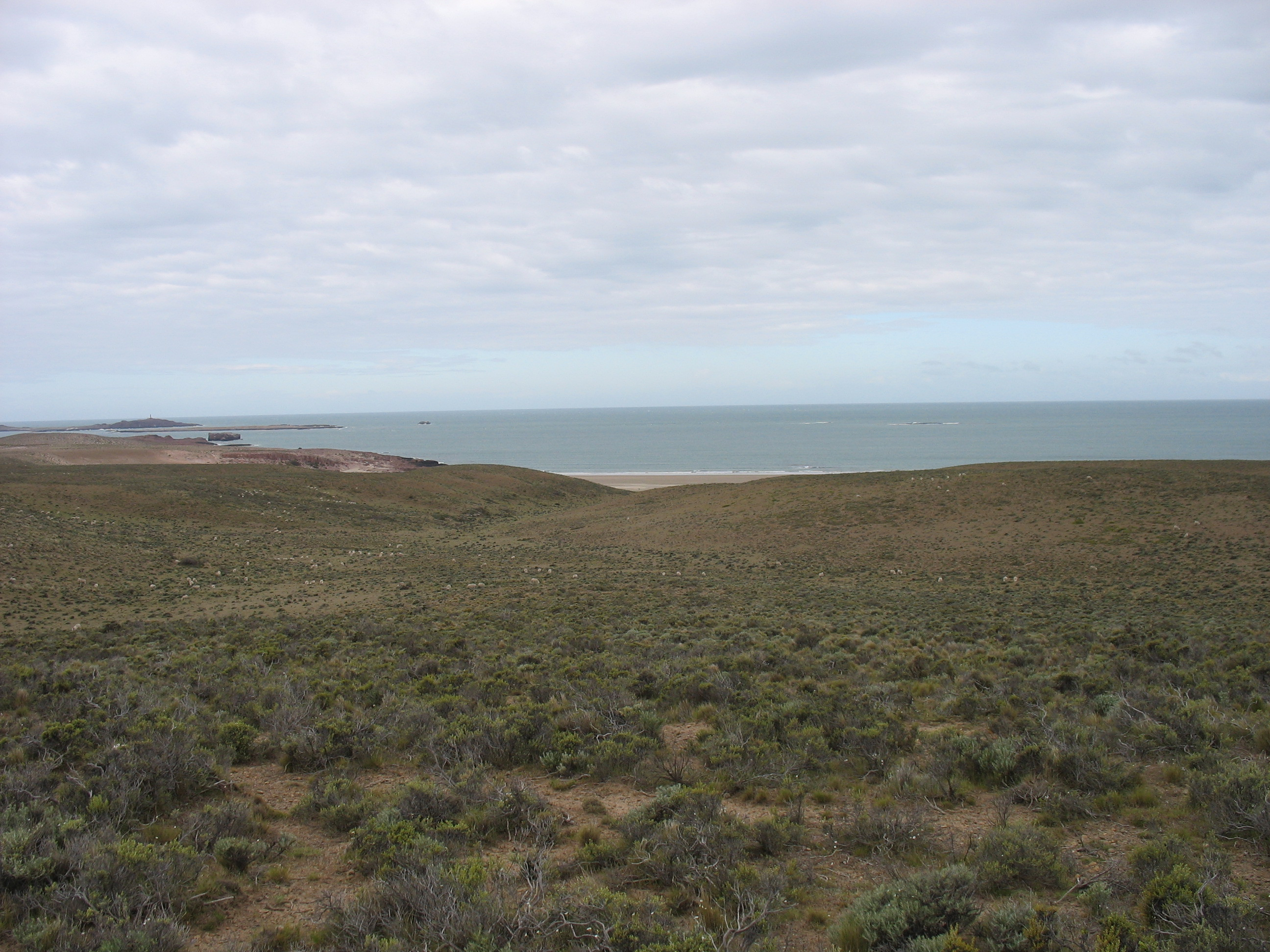 View of the Oso Marino Bay (Bahia del Oso Marino)